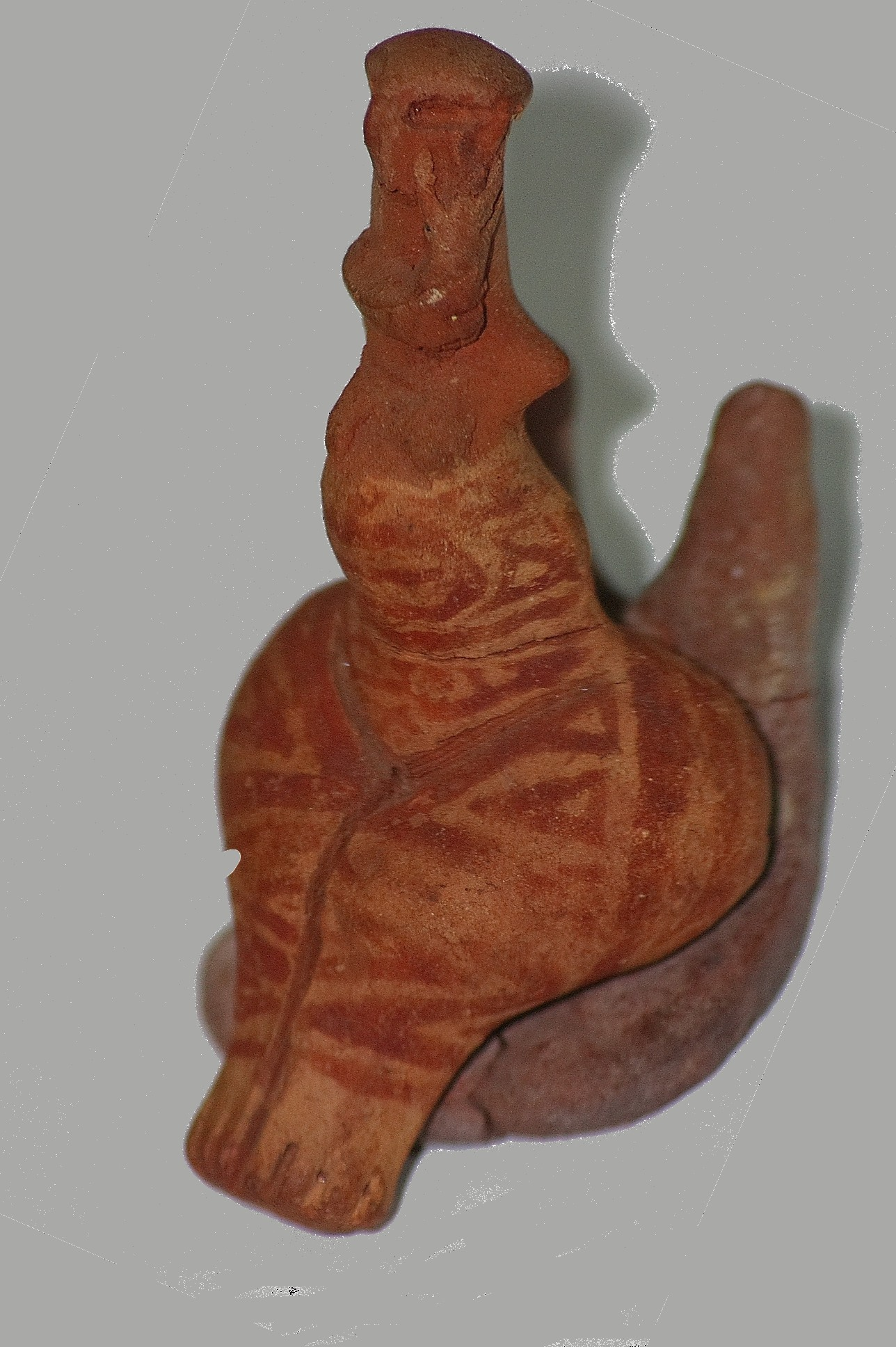 "Goddess Council" Cucuteni Culture Clay Figure. Piatra neamt Museum